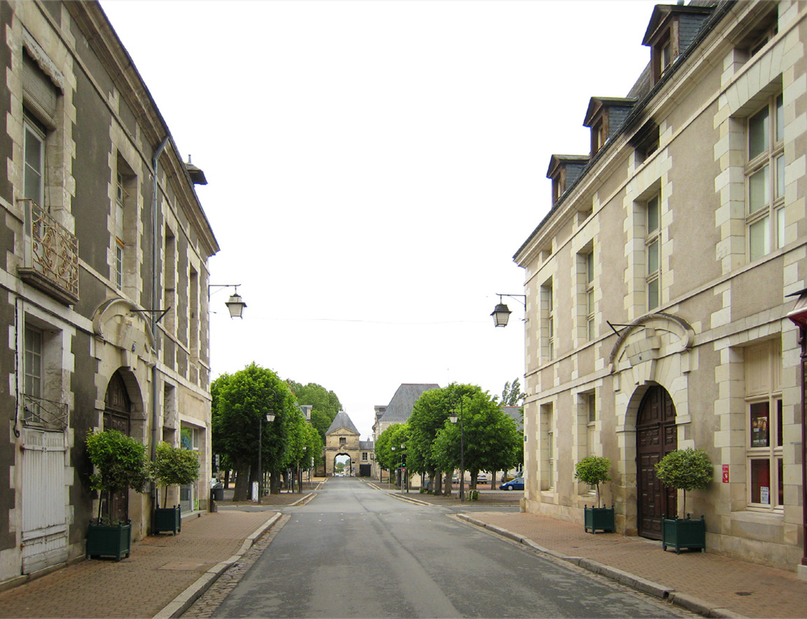 town of Richelieu, France, Grande Rue near Place des Religieuses